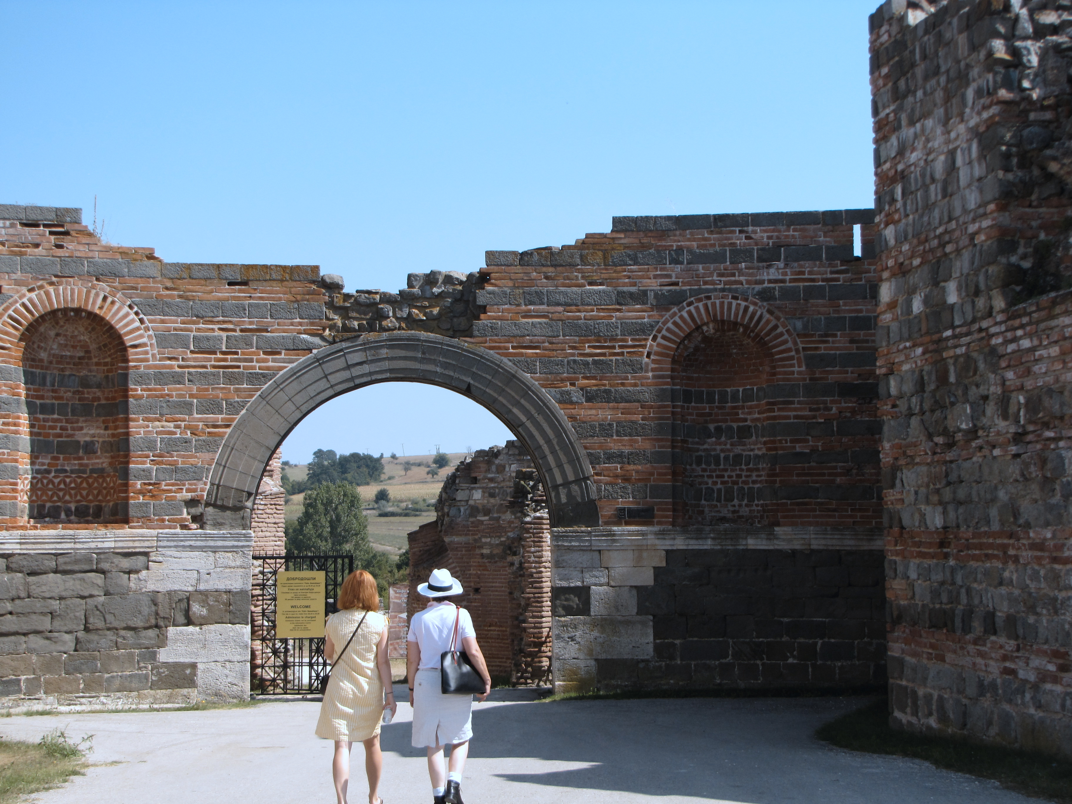 AWIB-ISAW: The Fortifications at Felix Romuliana (III) The main gateway at Felix Romuliana, a palace built by the emperor Galerius in modern-day Serbia. The gateway is part of the second phase of fortification. by Anne Chen (2009) photographed place: Felix Romuliana (Gamzigrad) Published by the Institute for the Study of the Ancient World as part of the Ancient World Image Bank (AWIB). Further information: [1].